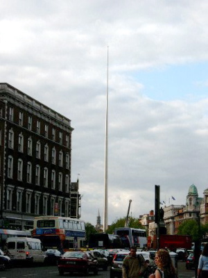 large image of Spire of Dublin - my image. no c/r